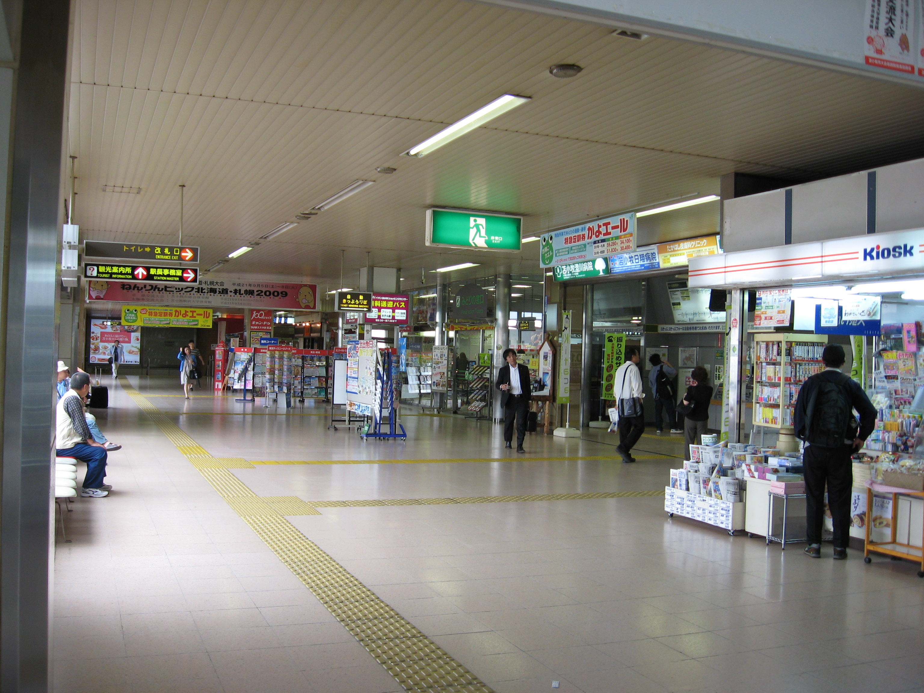 Concourse of Tomakomai Station (Sta. No. H18), Muroran Main Line (JR Hokkaido), Japan.